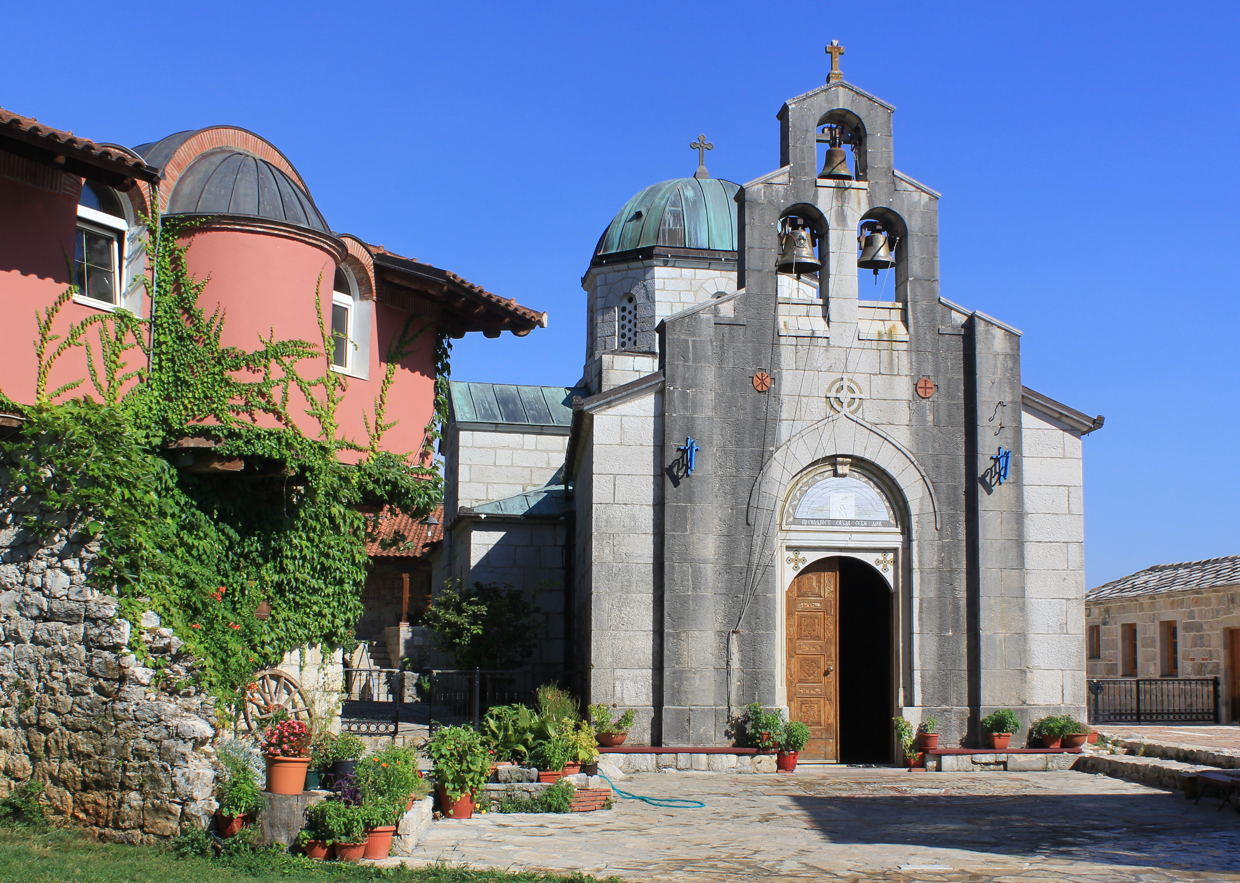 Church of Dormition in Tvrdoš Monastery